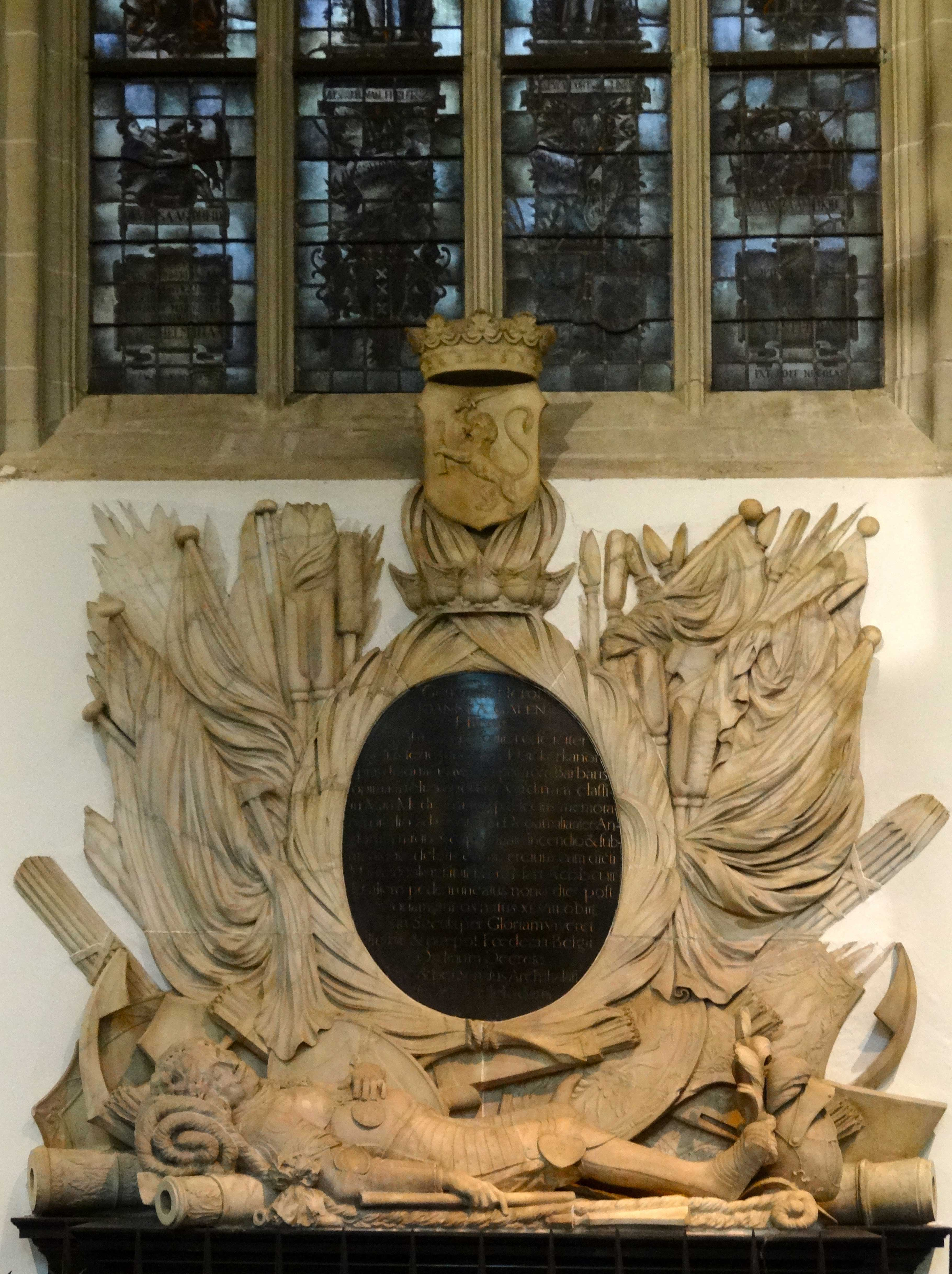 grave of Johan van Galen, Nieuwe Kerk LocationAmsterdam , NetherlandsCoordinates52° 22′ 26″ N, 4° 53′ 31″ E Established1408 Web page Authority control : Q1419675 VIAF: 137923044 ISNI: 0000 0001 2364 2477 LCCN: n96006703 GND: 4842959-4 Rijksmonument: 5940 WorldCat institution QS:P195,Q1419675